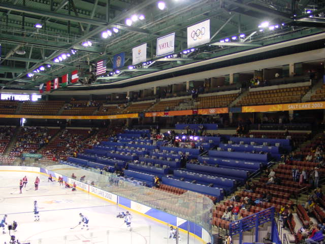 The media section of the E Center when it served as an Olympic hockey venue during the 2002 Winter Olympic Games in Salt Lake City. Photo shot during women's hockey match between Canada and Kazakhstan